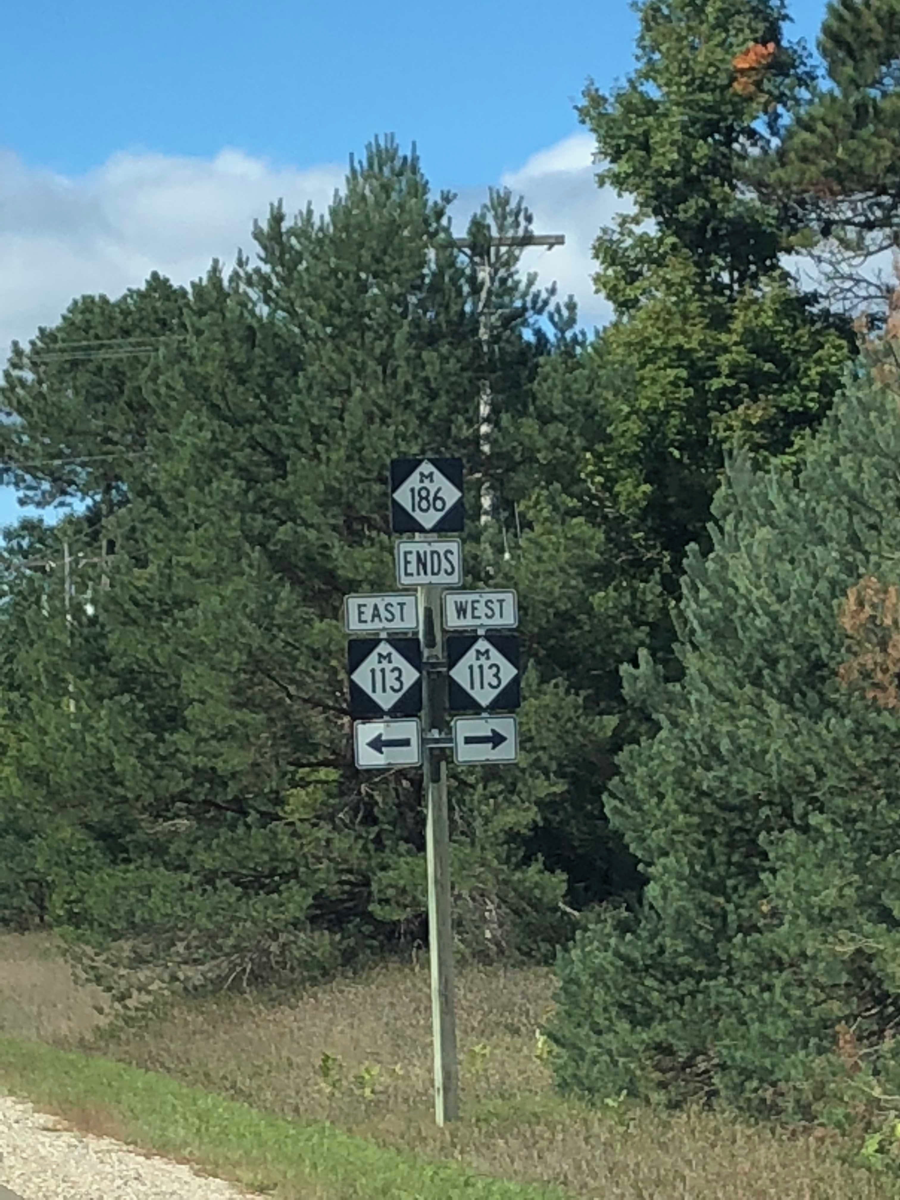 Sign on M-186 at M-113, just west of Fife Lake in Grand Traverse County, Michigan